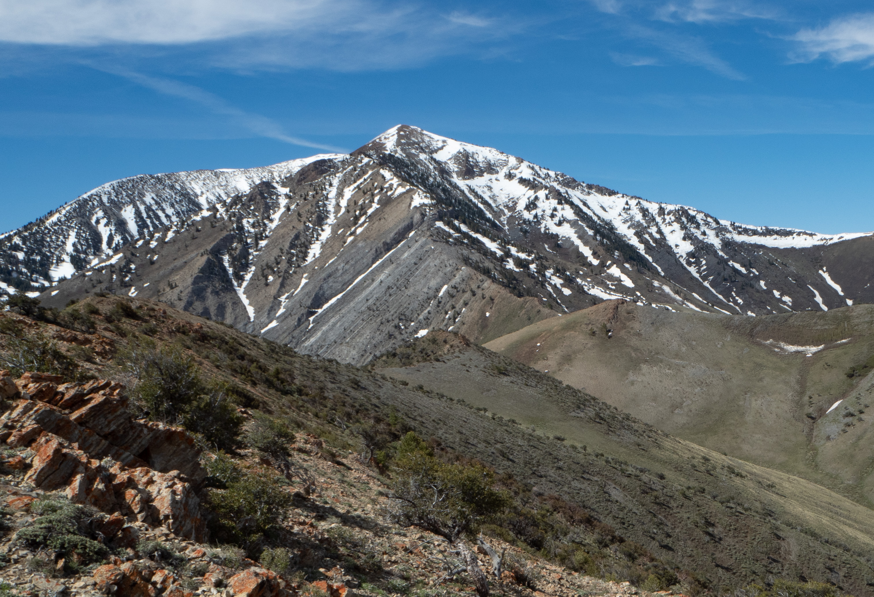 North ridge of Pearl Peak, Nevada. The summit is the white dome immediately to the left of the prominent pyramid, which appears taller from this perspective. Grey and brown rock bands are mostly lower Paleozoic limestone and dolostone with some sandstone. Distant trees are mostly bristlecone pine (Pinus longaeva).